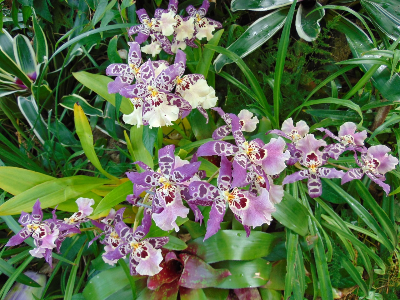 Bakerara Clownish ‘Cotton Candy’ Please respect author's moral rights by not changing this description or the image title.